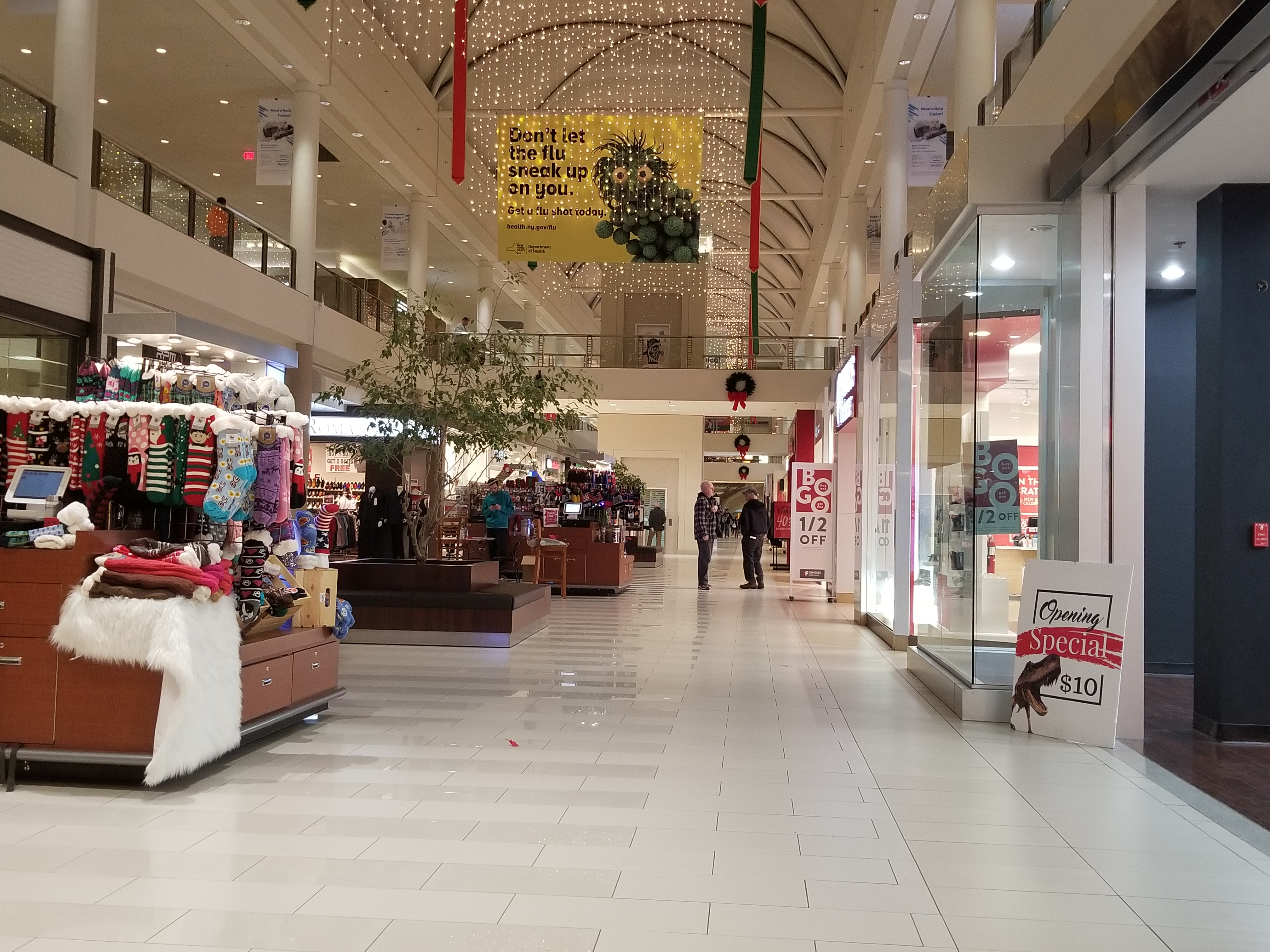 A photo of the interior of the Poughkeepsie Galleria Mall in Dutchess County, New York. Taken 11 Dec 2019 by myself.